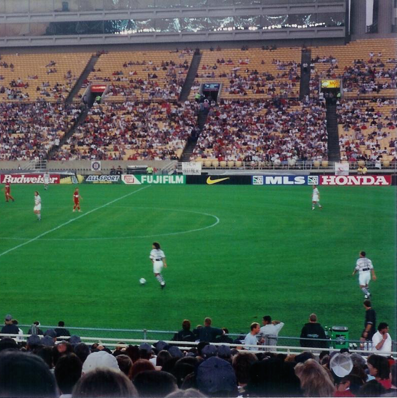 A cropped version of an image that had previously been uploaded to Wikimedia Commons